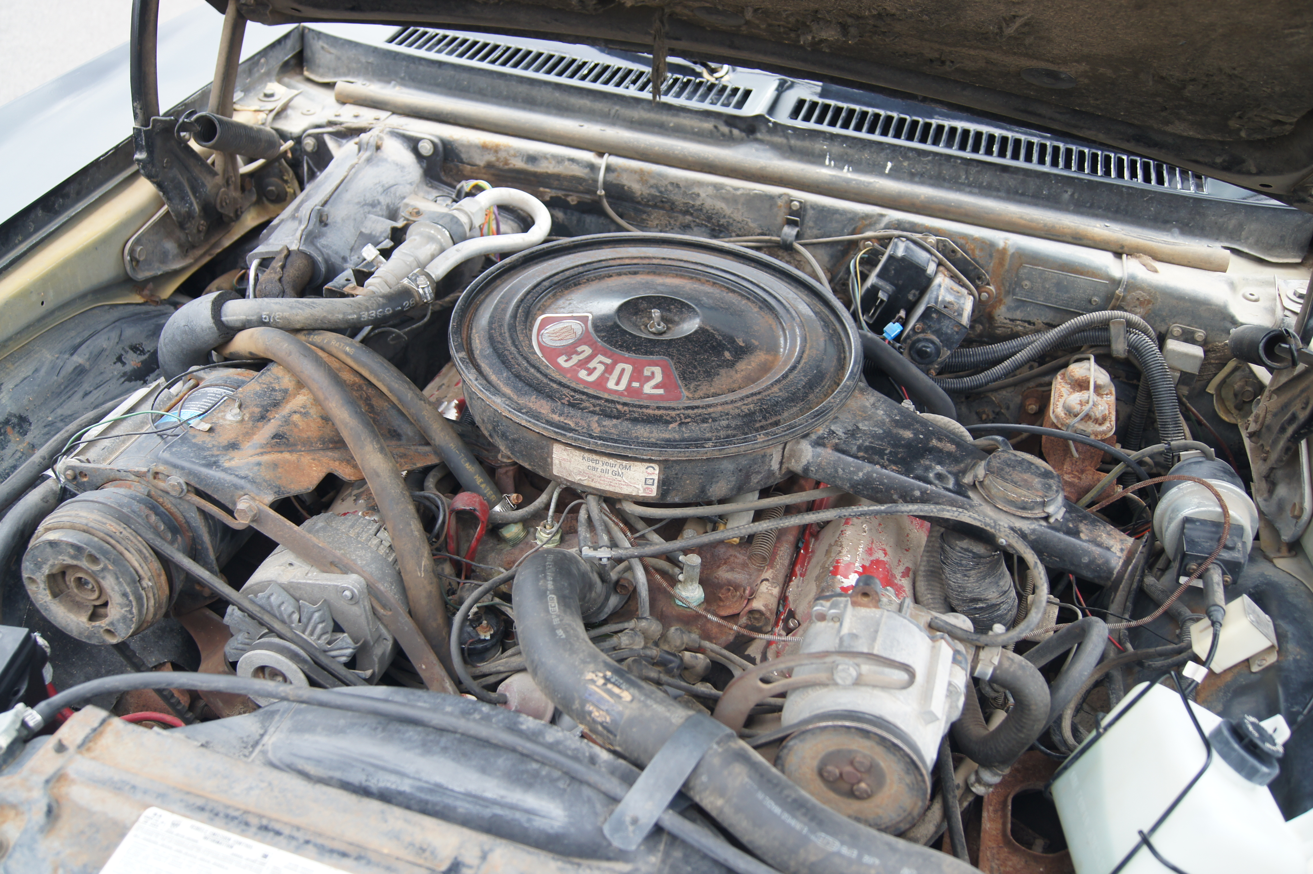 HISTORIC DOWNTOWN HASTINGS CRUISE-IN & CLASSIC CAR SHOW July 11, 2015 Click here for more car pictures at my Flickr site.